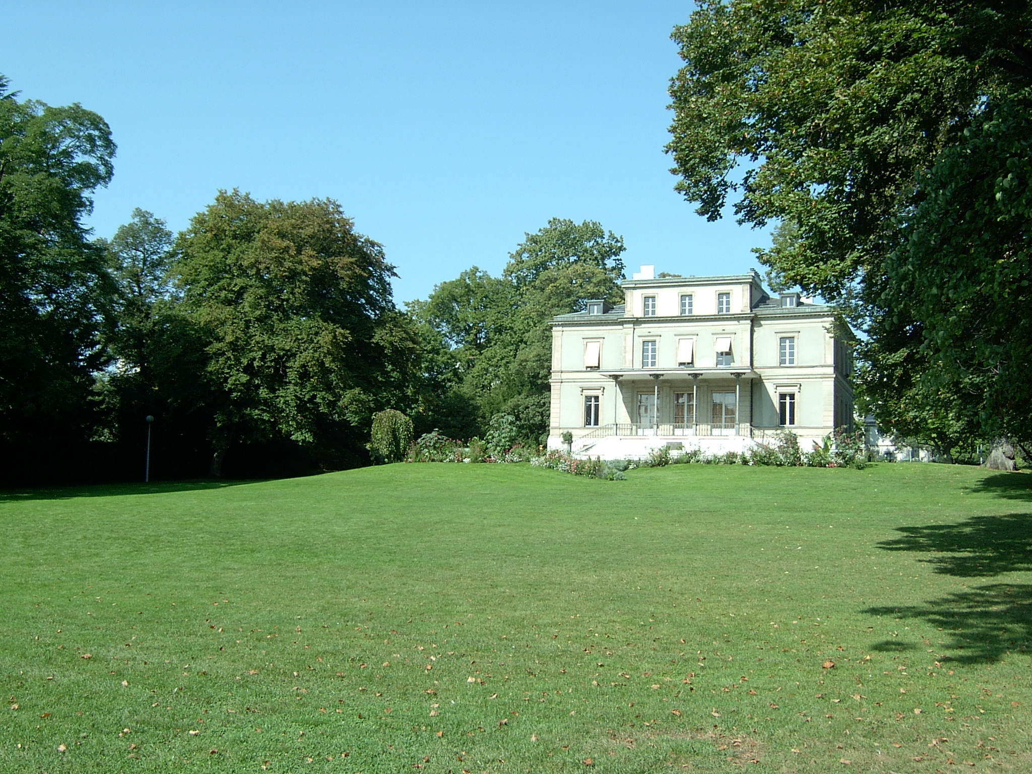 The Villa Moynier (Geneva).